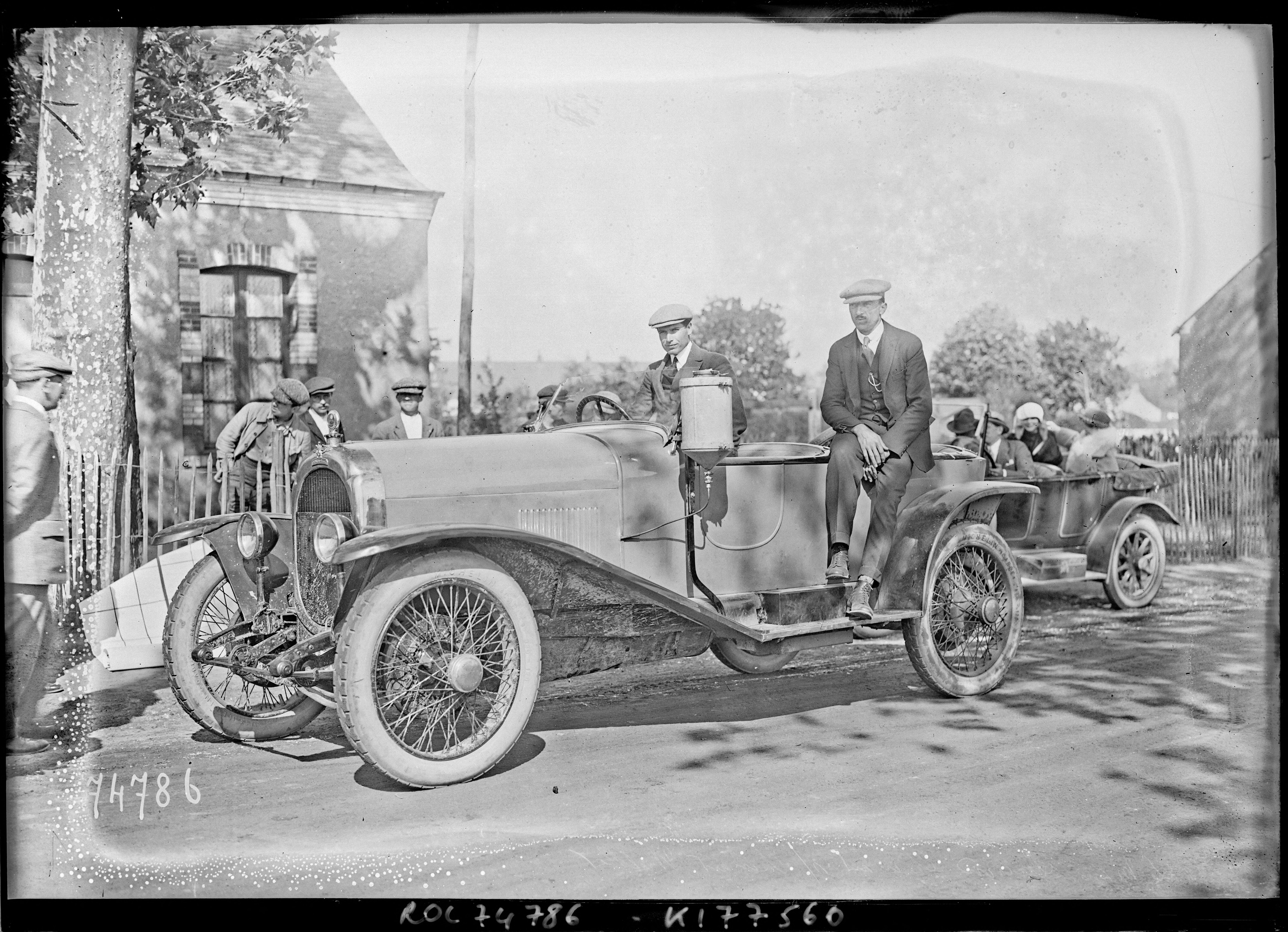 Lucien Chenard in "Chenard & Walcker" car at Le Mans car race (28 May 1922)